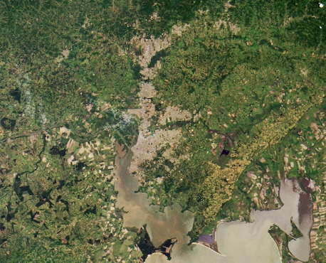 Porto Alegre, Brazil, from space.